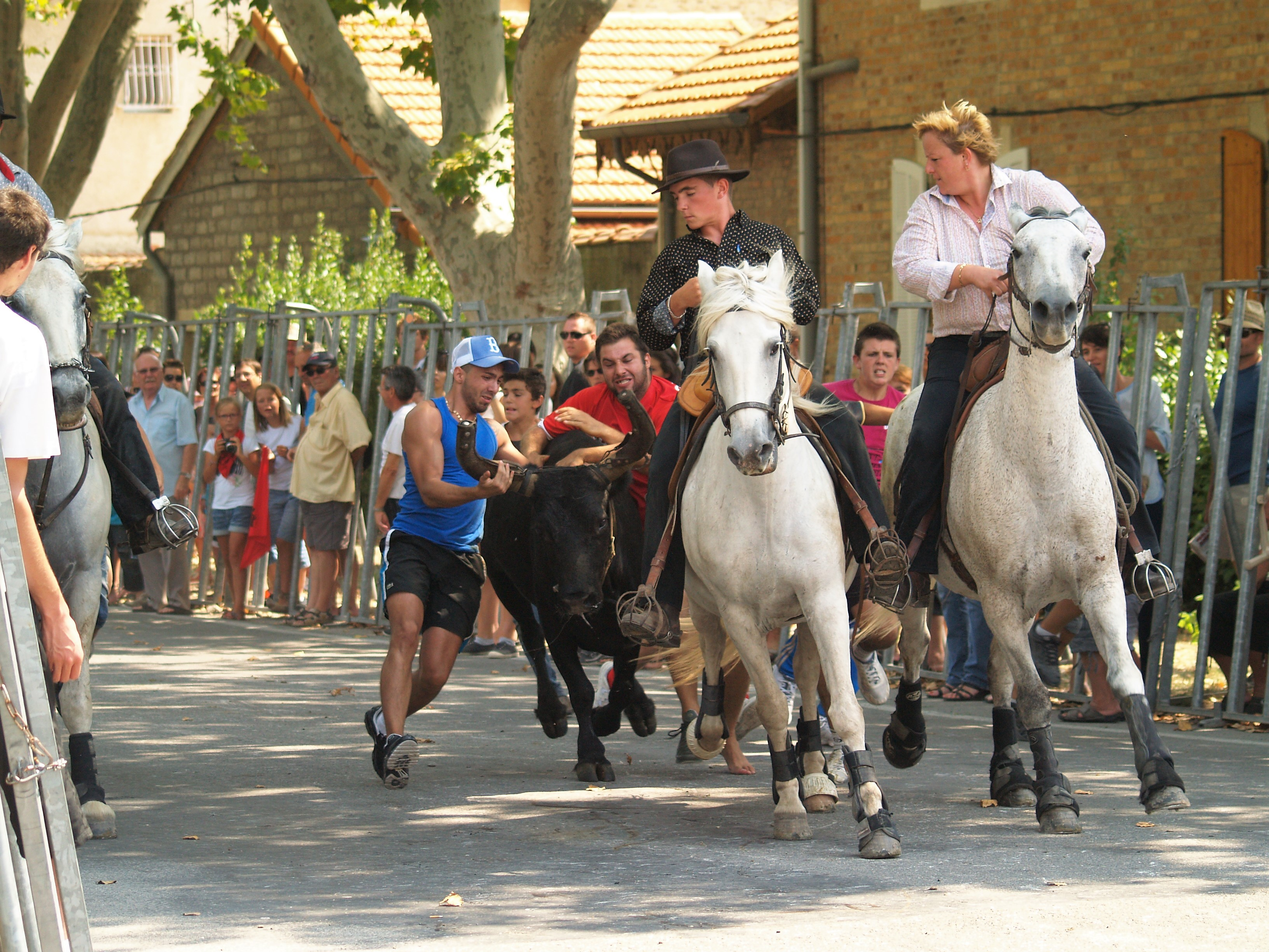 Abrivado during the votive festival of Salin-de-Giraud (Arles), August 17, 2013.